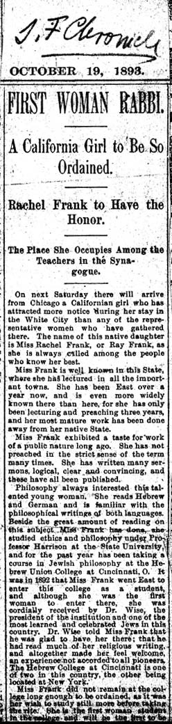 Article in the San Francisco Chronicle of 19 oct 1898, announcing erroneously the first woman rabbi (Rachel Ray Frank)